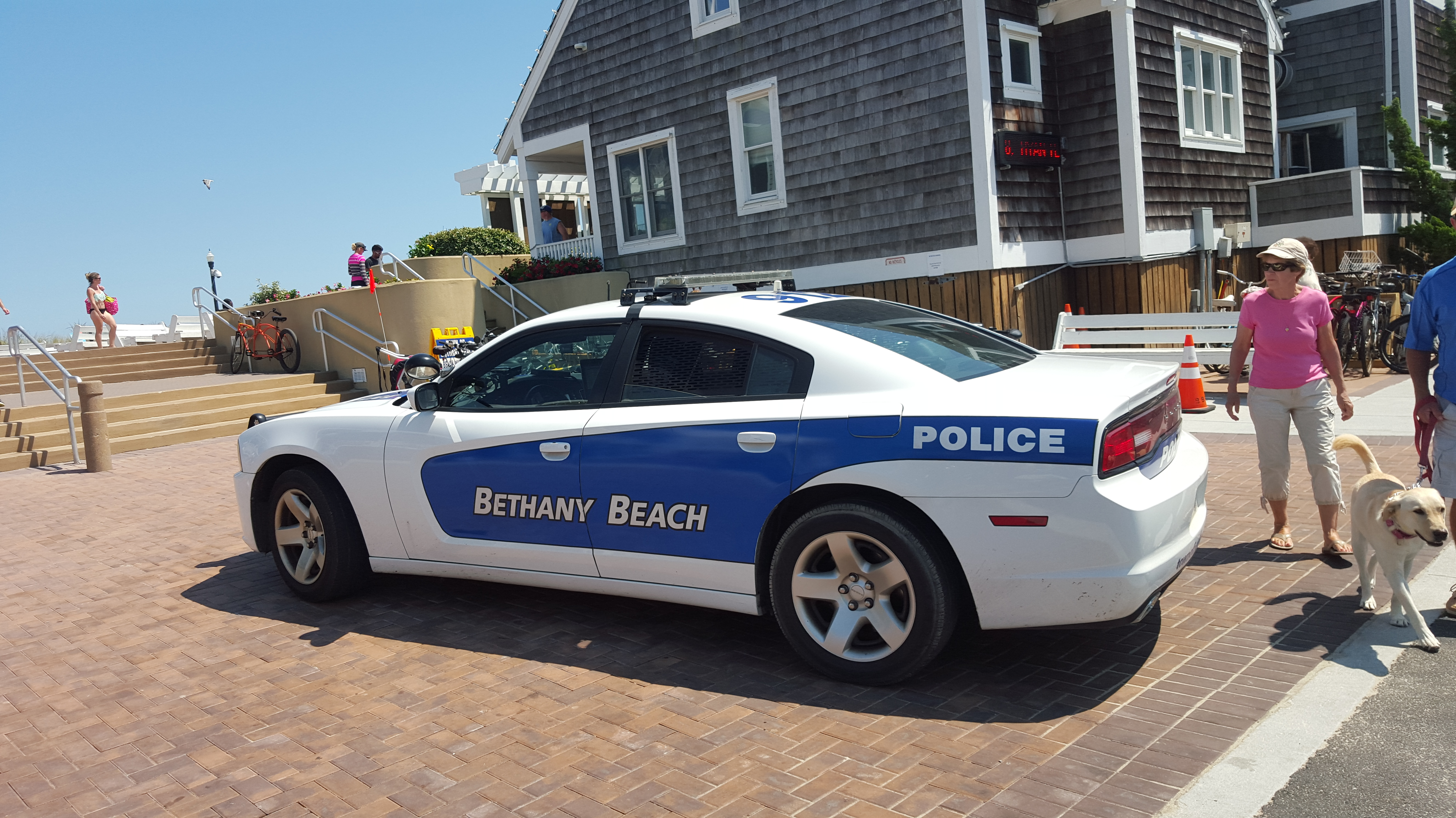 Bethany Beach, Delaware Police Car